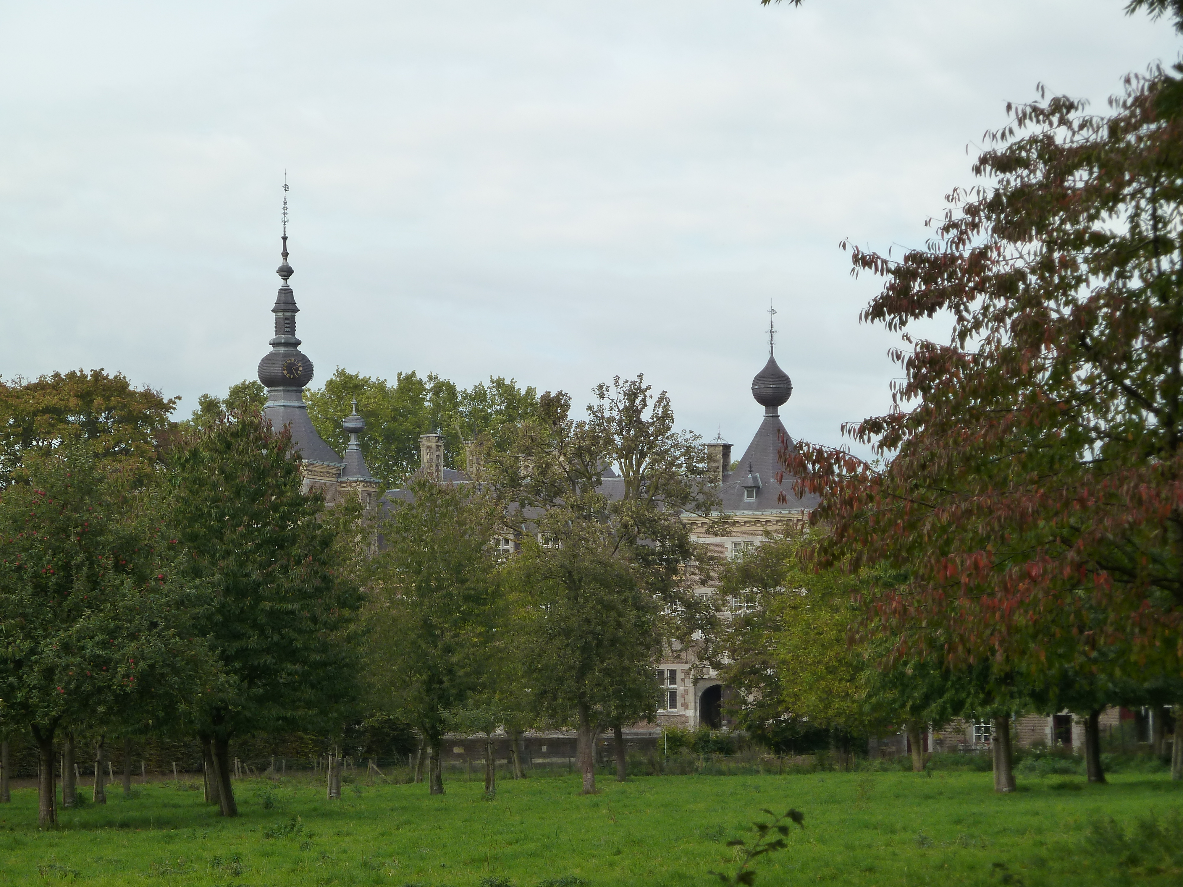 Castle Eijsden, Eijsden, Limburg, the Netherlands